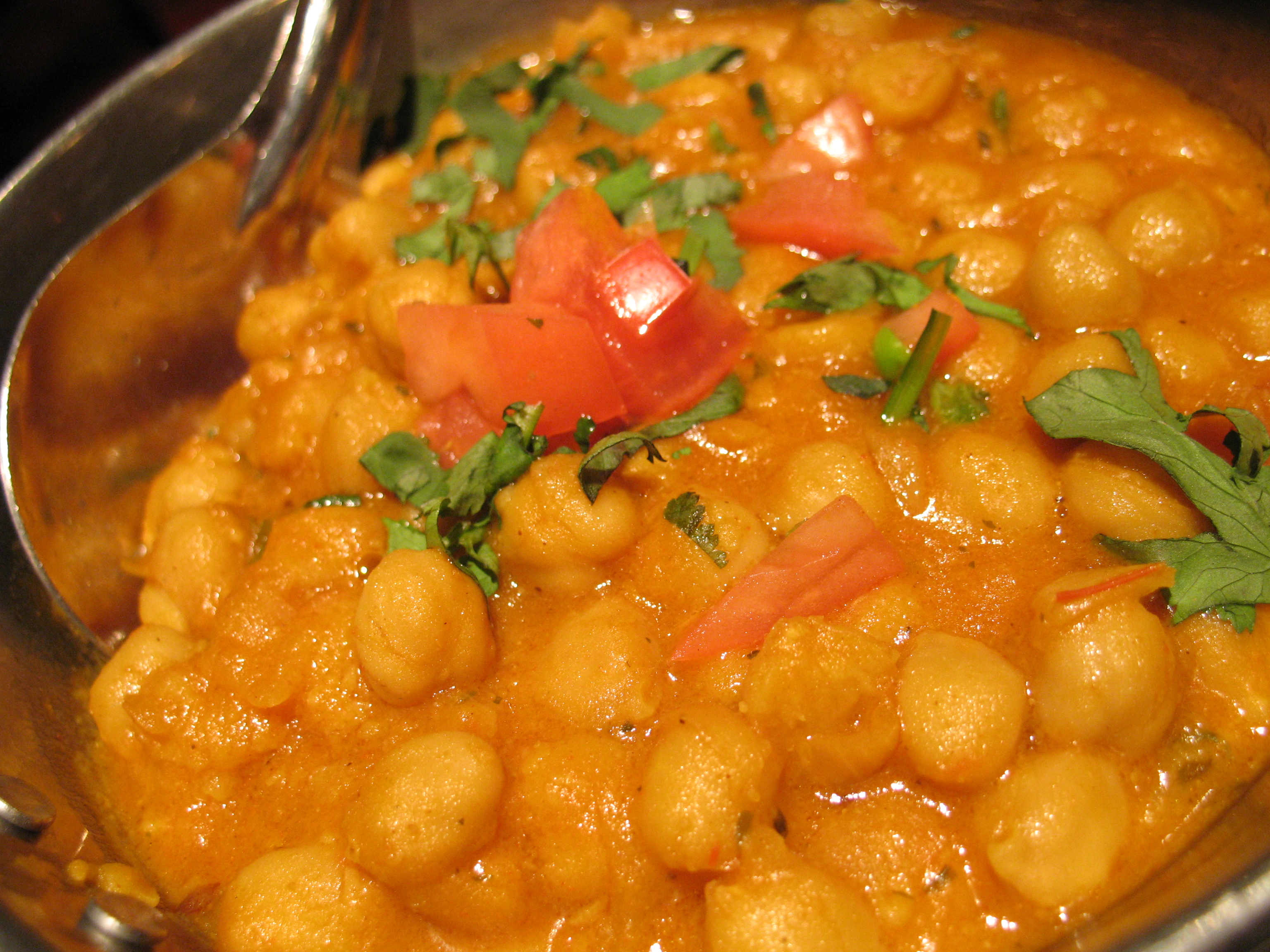 Picture of chana (chick peas) masala at Le Taj restaurant.